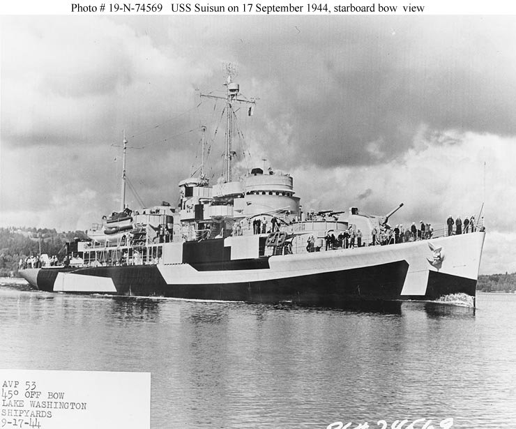 United States Navy seaplane tender USS Suisun (AVP-53) off Houghton, Washington